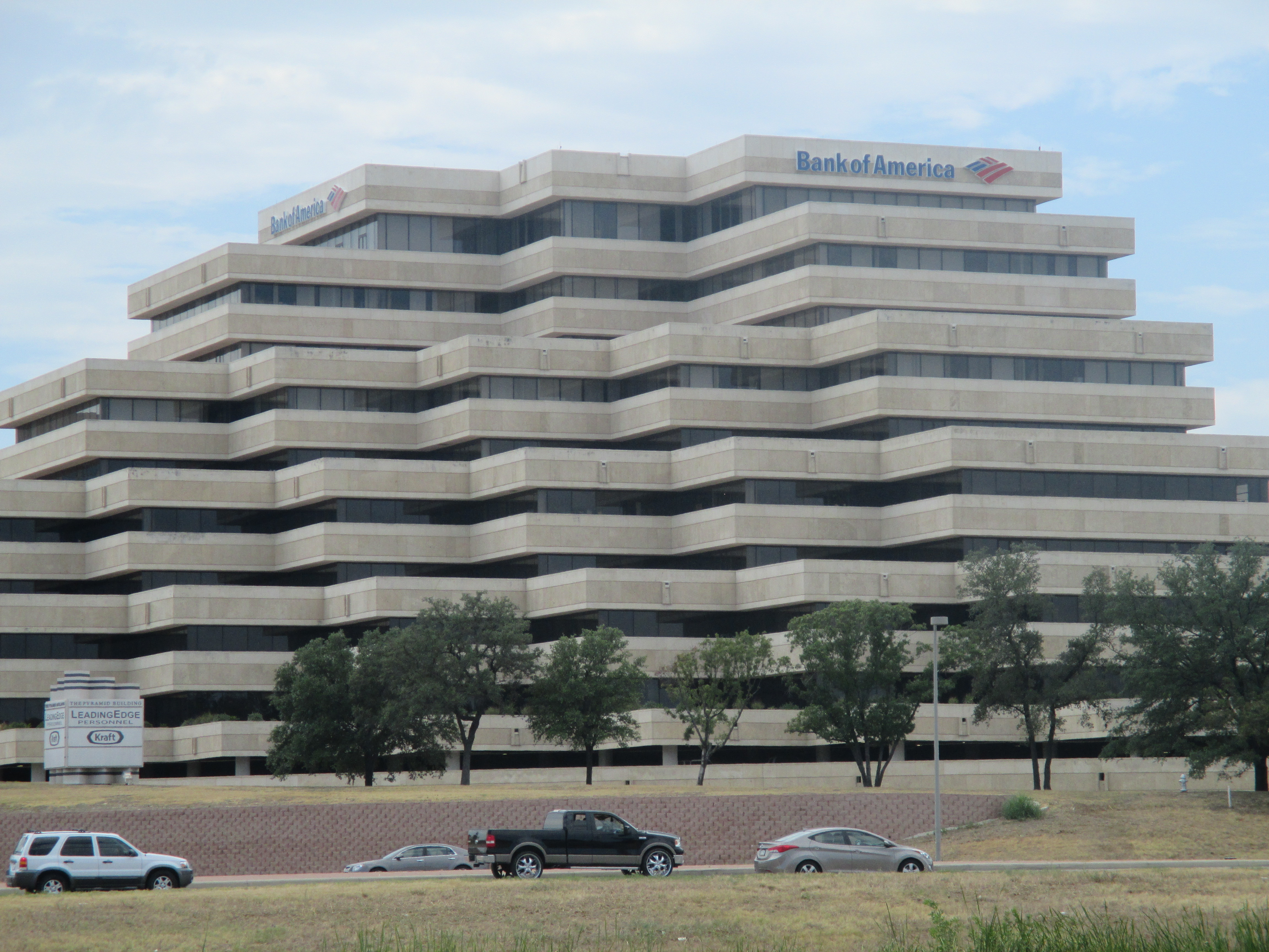 I took photo with Canon camera of Bank of America pyramid-shaped building in San Antonio, TX.